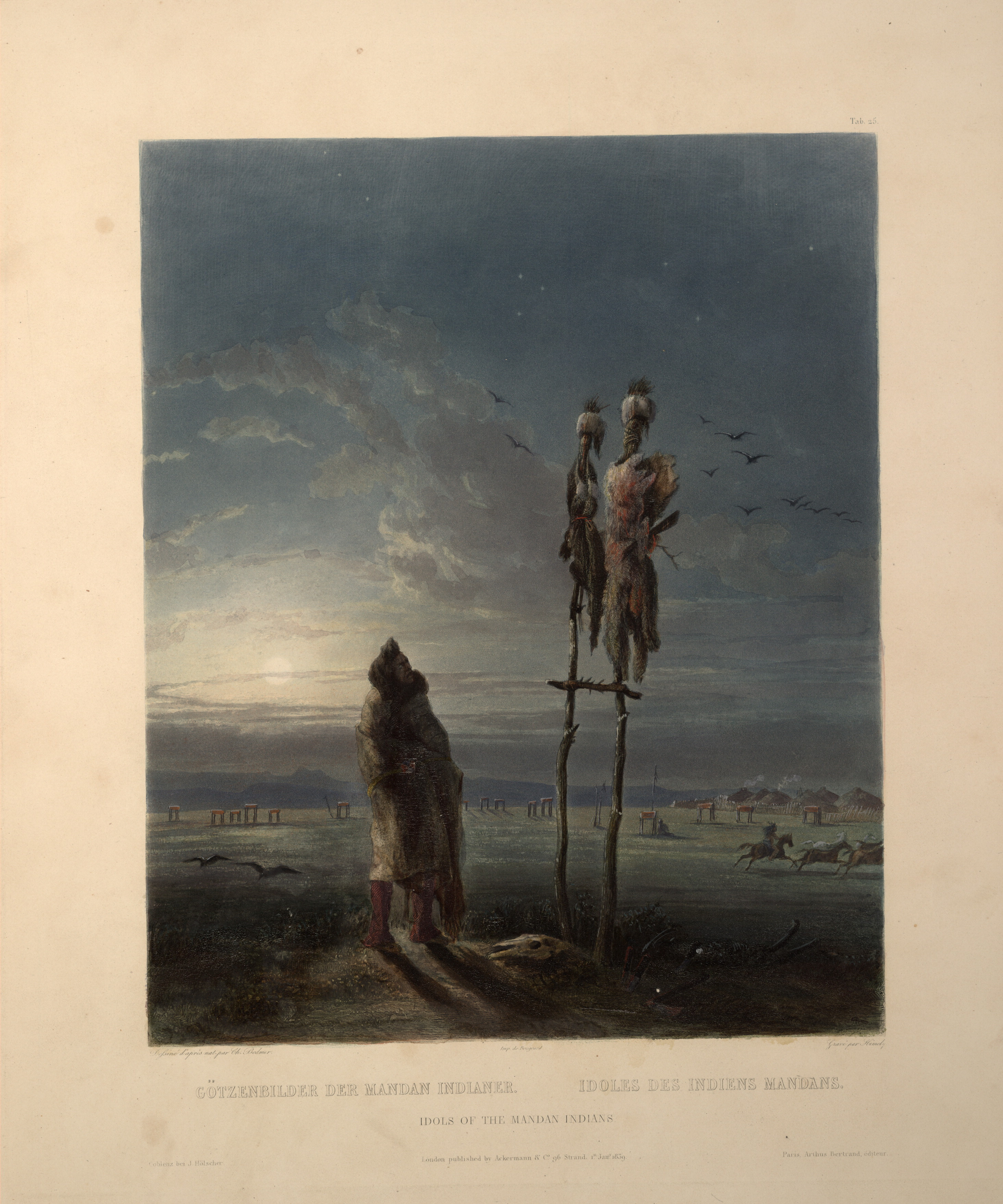 Idols of the Mandan indians